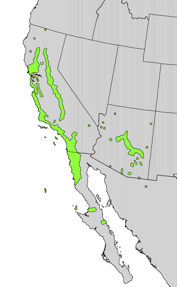 Range map of Rhamnus crocea